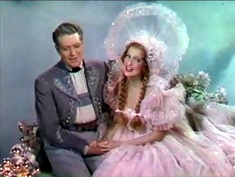 Screenshot of Nelson Eddy and Jeanette MacDonald from the trailer for the film Sweethearts